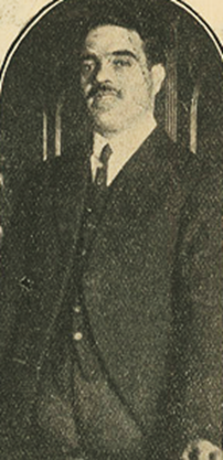 Alberto Rocha Saraiva, government minister during the Portuguese First Republic (1910-1926)